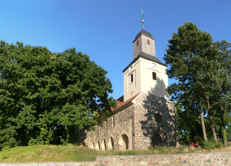 North-western view of Church in Hohenfinow, Barnim district, Brandenburg state, Germany